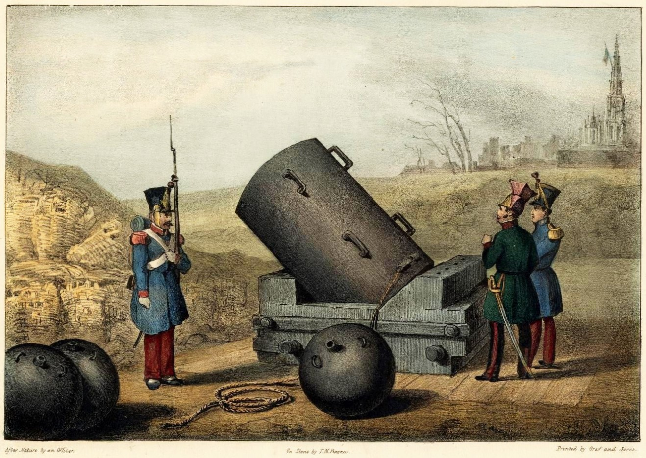 The Great Liege or Monster mortar employed during the siege of the citadel at Antwerp in 1832 (cropped version)